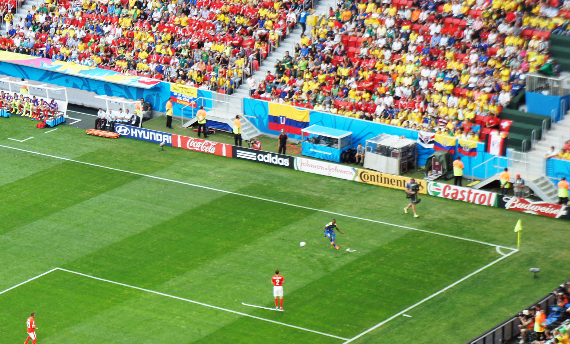 The part of photo by Mariordo was cropped to use in the page about vanishing foam in RusWiki.